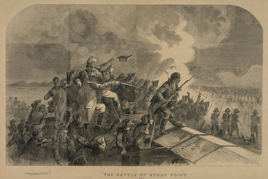 Depiction of General Anthony Wayne at the Battle of Stony Point, 1779.